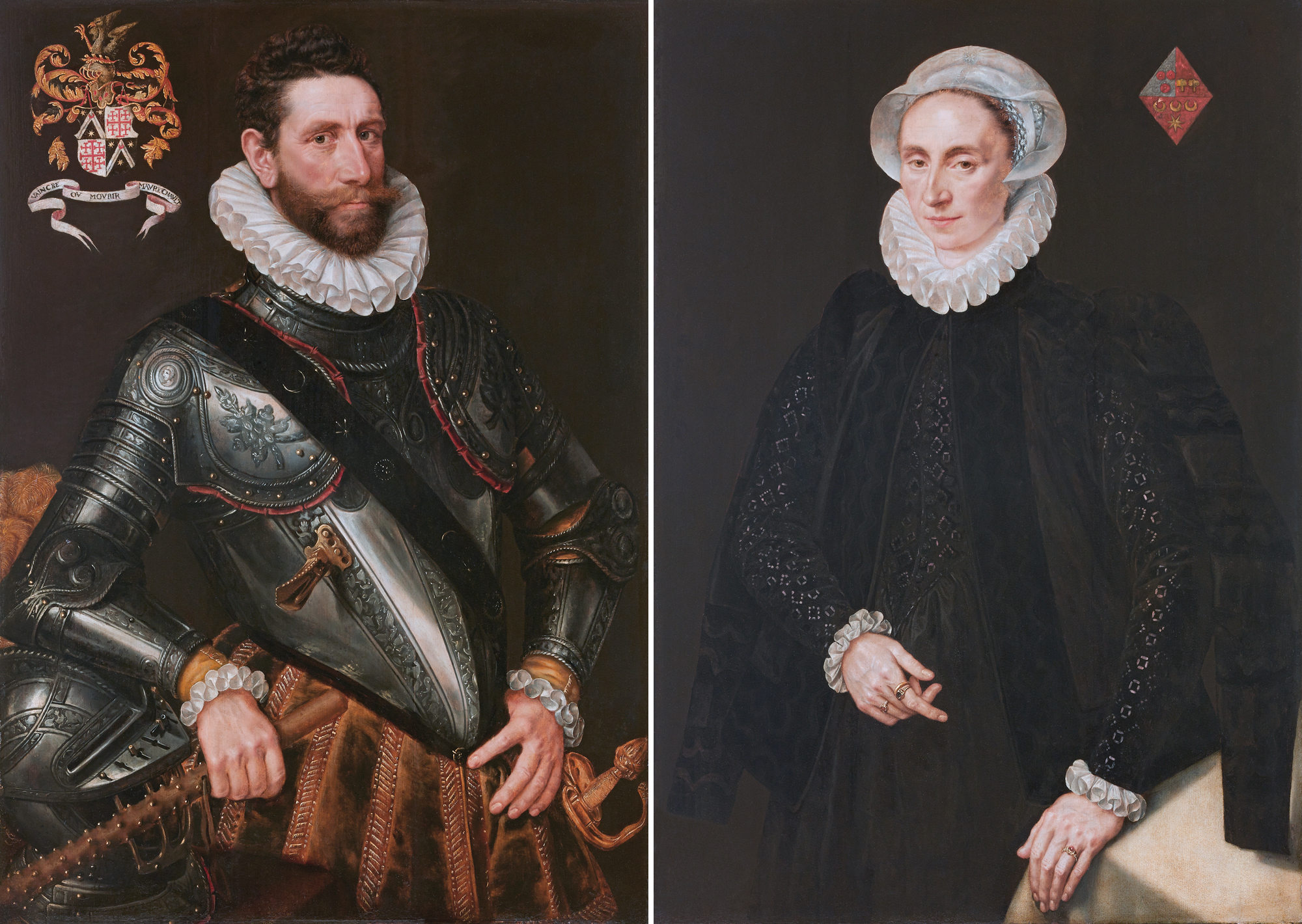 Johan II, knight of Mauregnault and Marguerite Le Prince oil on panel 104,5 x 73,8 cm inscribed t.l.: VAINCRE OU MOURIR MAURECNAULT. 1550 - 1599